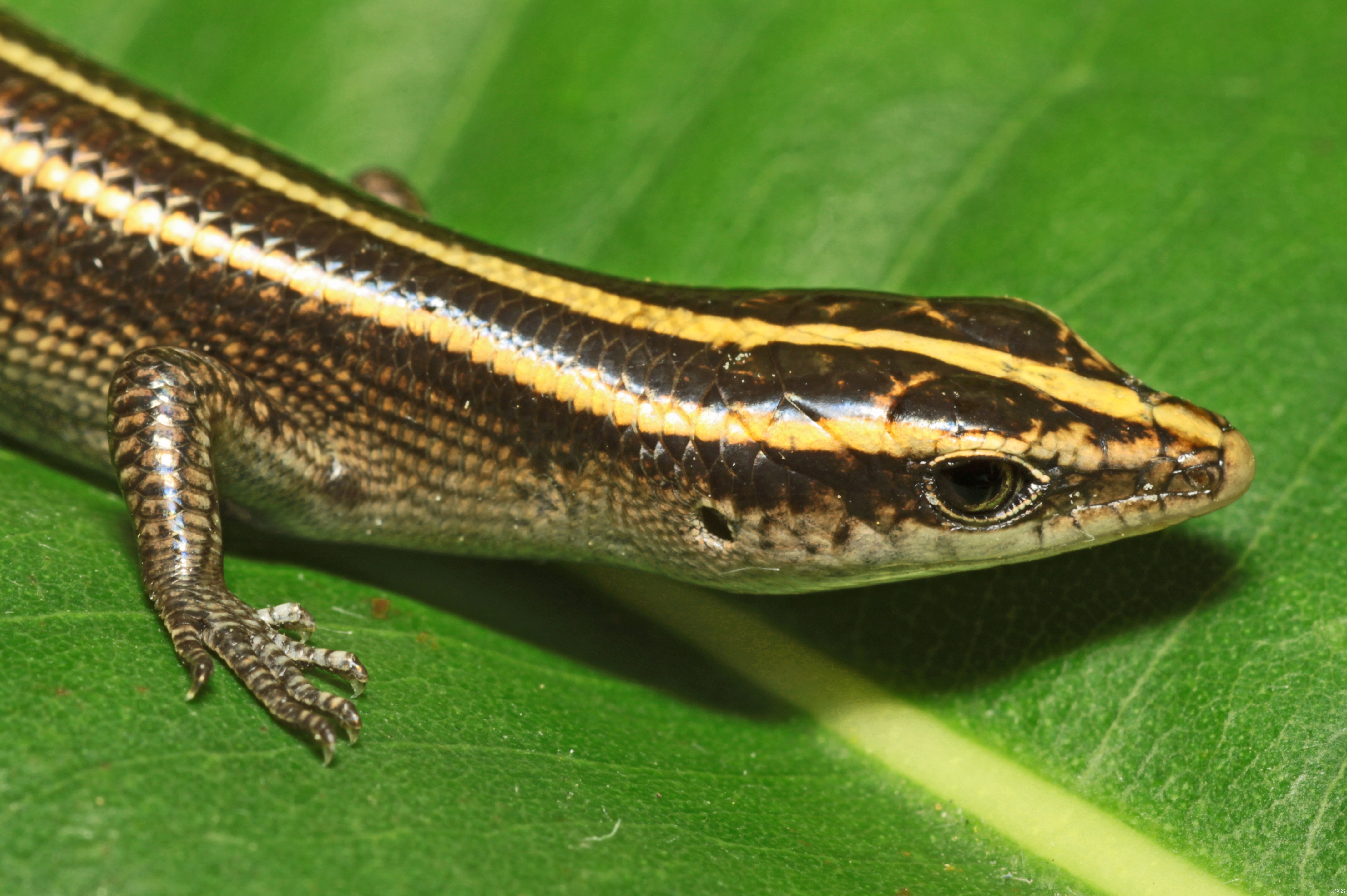 A copper-striped blue-tailed skink (Emoia impar) photographed in Samoa during a USGS field survey in 2010